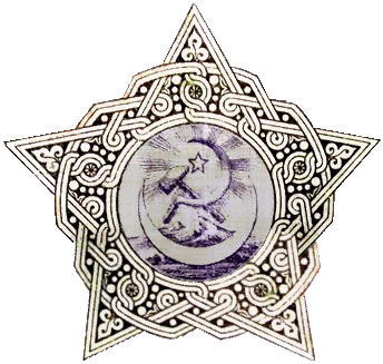 Coat of Arms of the Transcaucasian SFSR